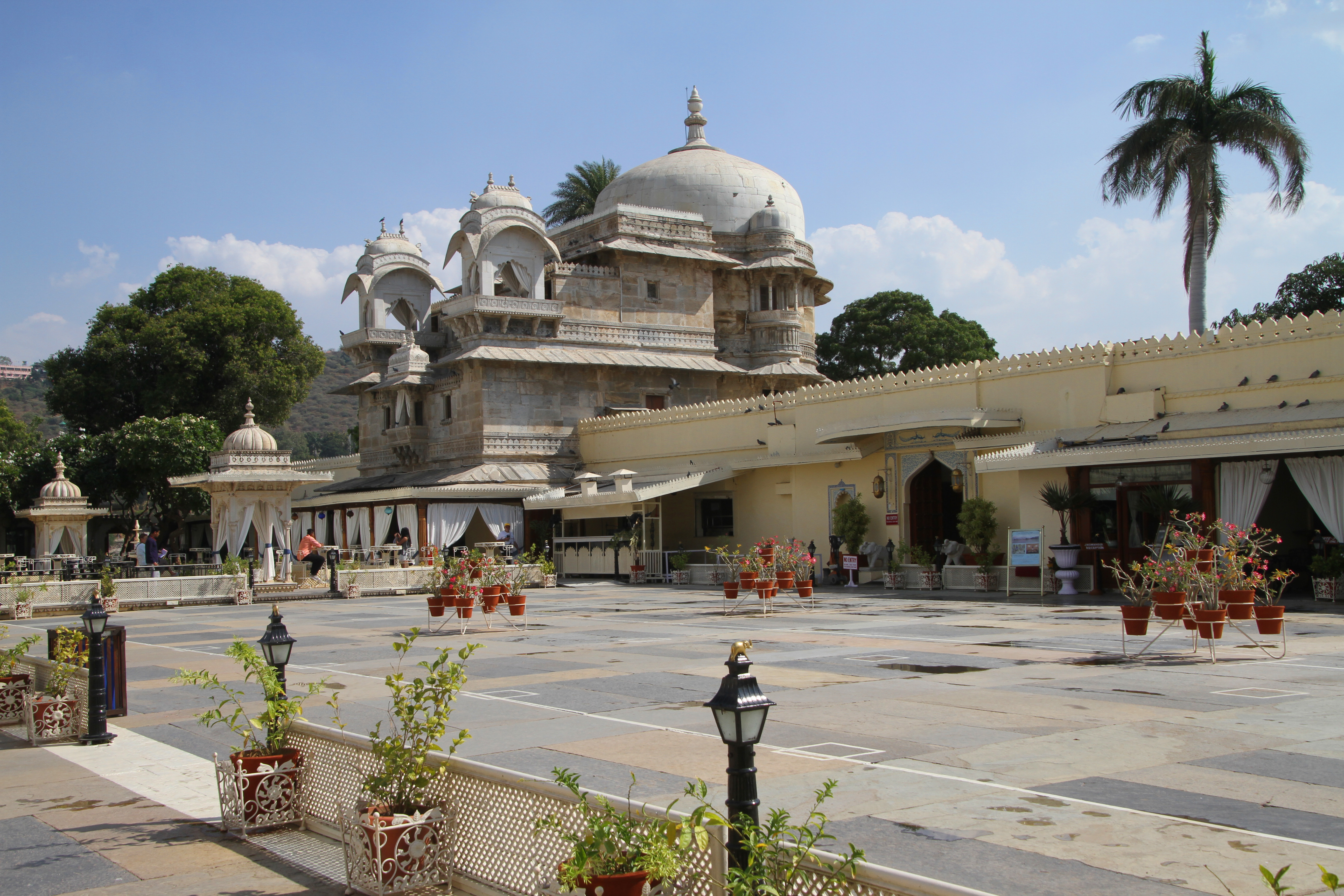 Jag Mandir Palace